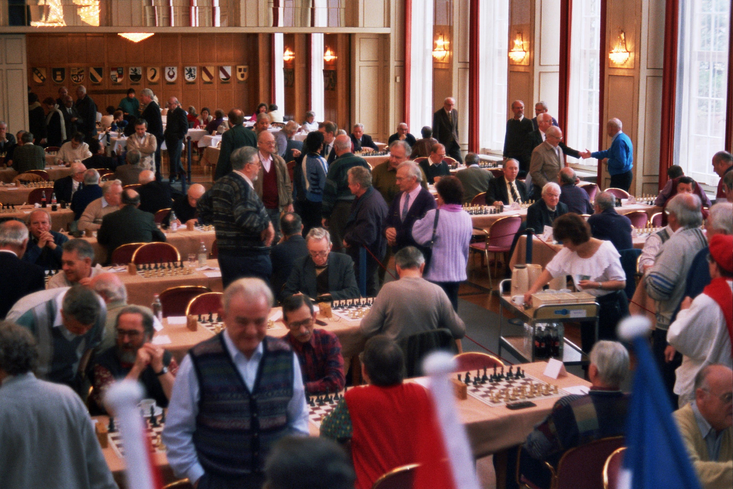 Tournament hall, Senior Chess World Championship 1995 at Bad Liebenzell, Photographer Gerhard Hund.